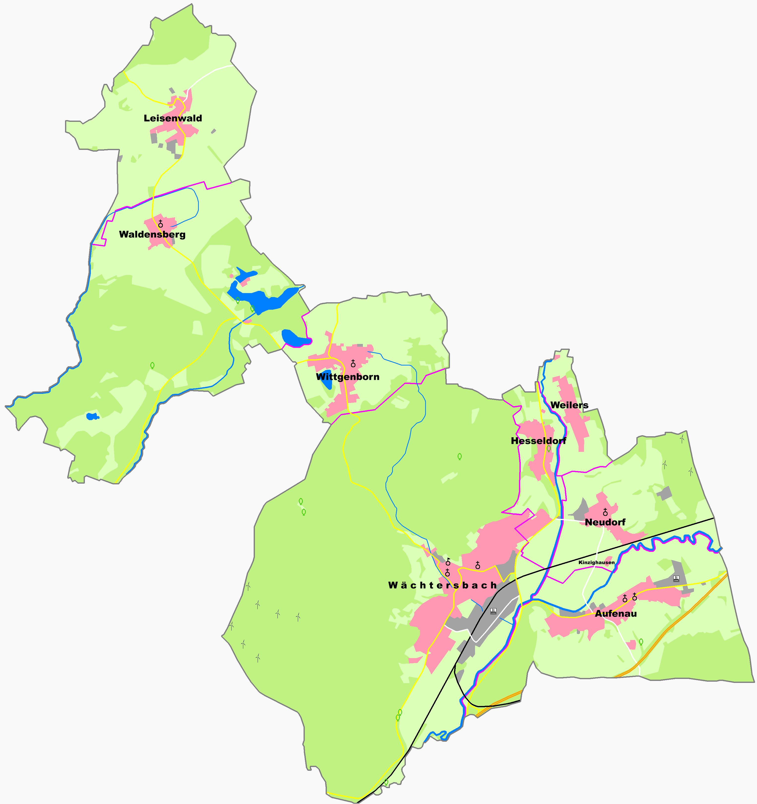 Municipal area and districts of Wächtersbach Grassland, Meadow Settlement area Industrial area Forest Body of water Municipal border District border Freeway Main street Side street Railway Industrial park Church Château Wind turbine Natural monument